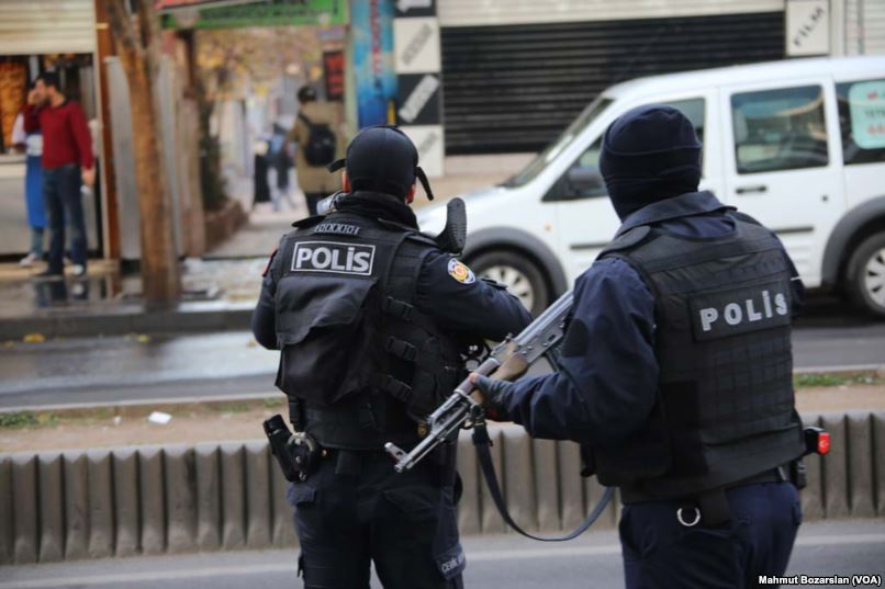 Turkish police forces in Diyarbakır, Turkey.